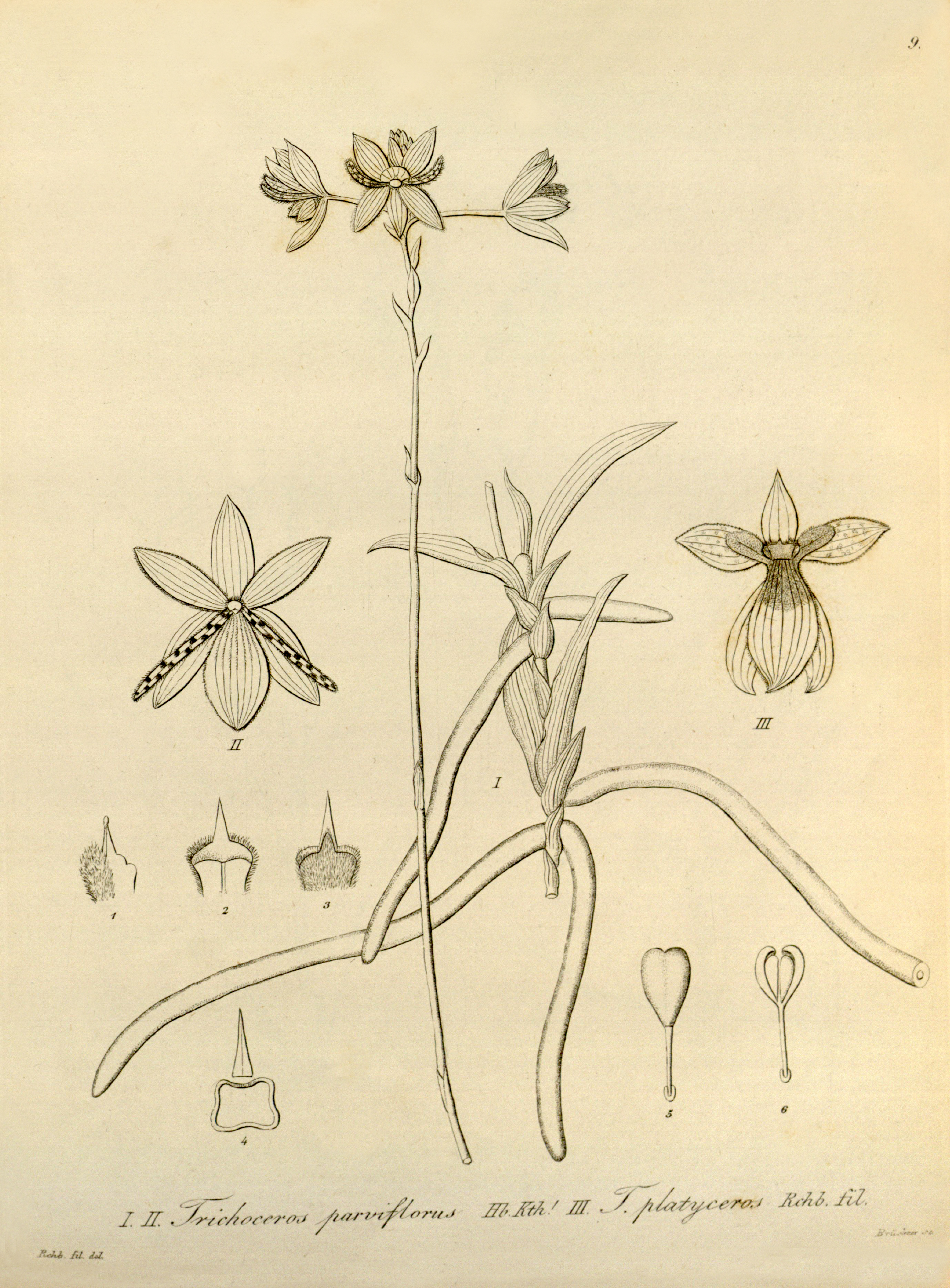 Illustration of: I, II. Trichoceros antennifer (as syn. Trichoceros parviflorus, left and center) III. Trichoceros platyceros (right)